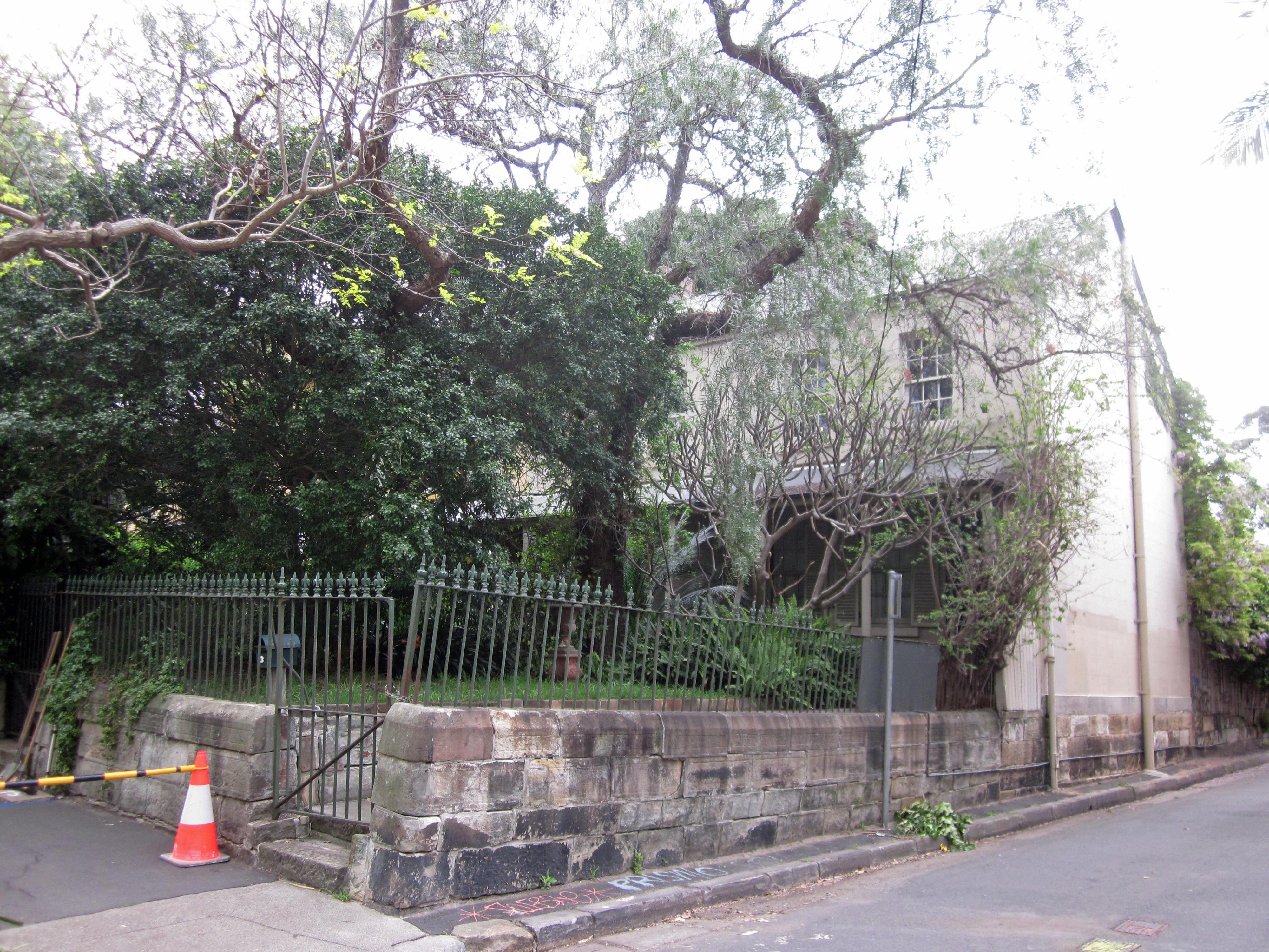 Fitzroy Terrace, 6-18 Pitt Street, Redfern, is listed on the New South Wales State Heritage Register. This photo is a view of No. 6 Pitt Street.